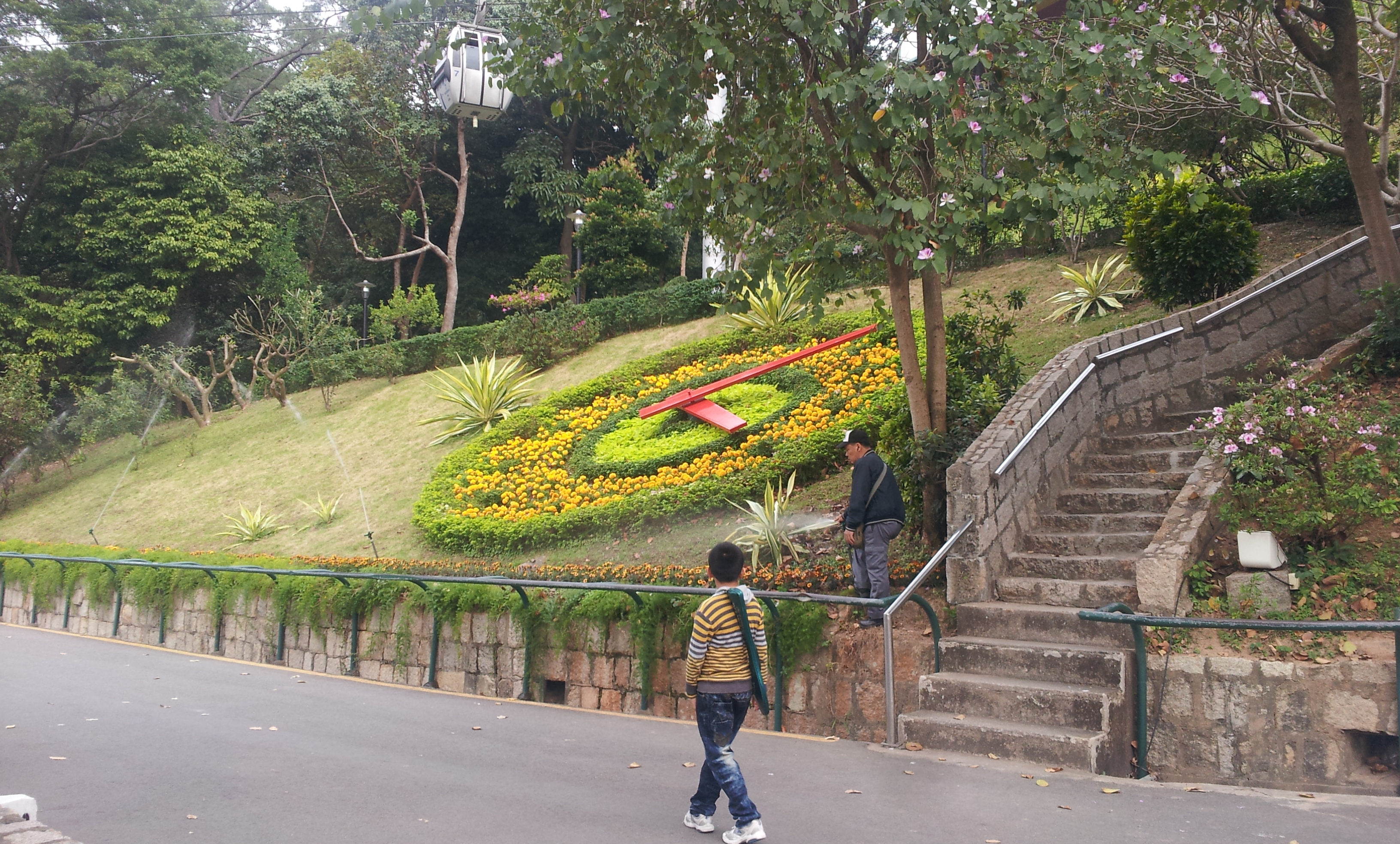 A Flower Clock at Guia Park